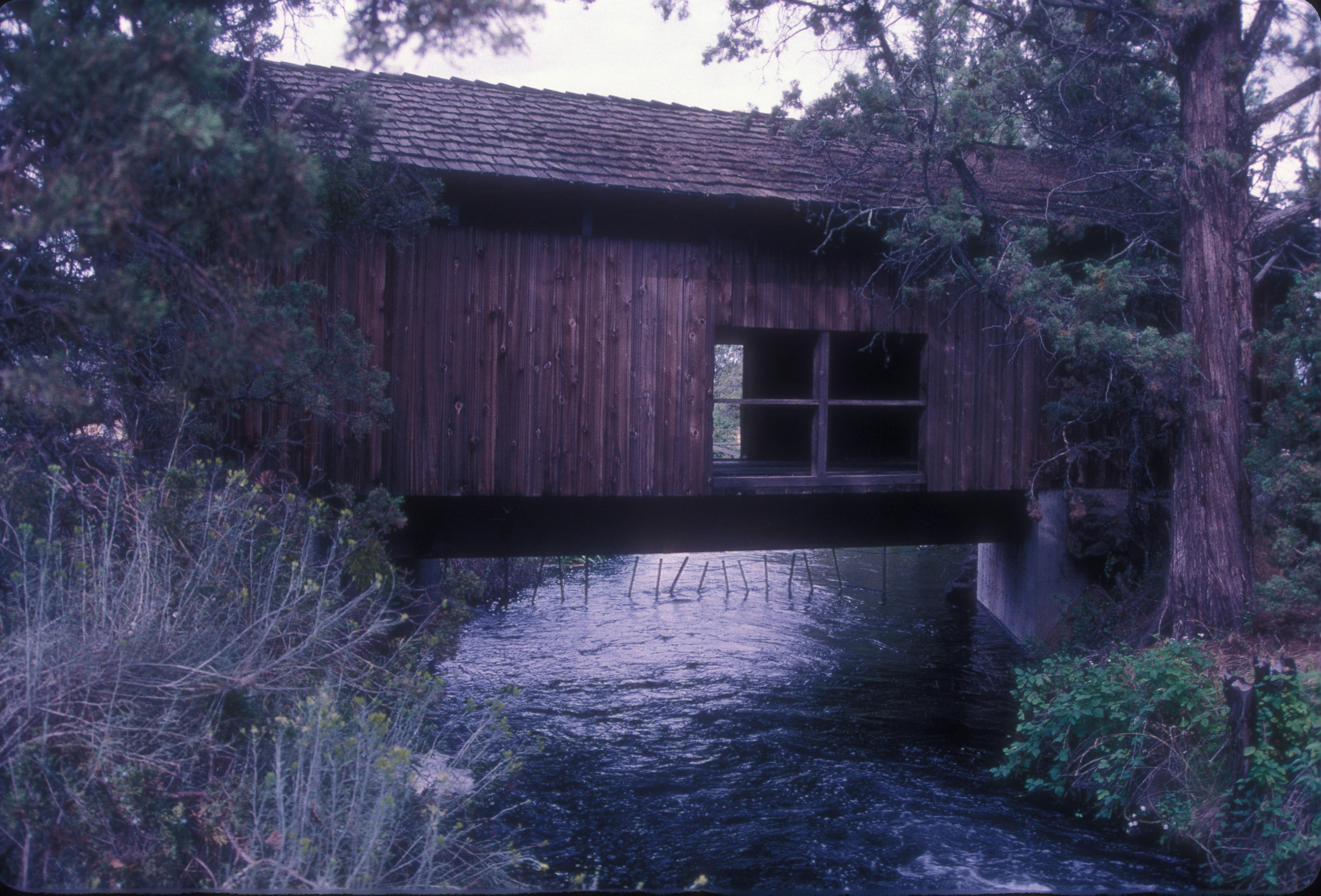 ROCK-OF-THE RANGE 42' STRINGER OVER SWALLEY GULCH BUILT IN 1963